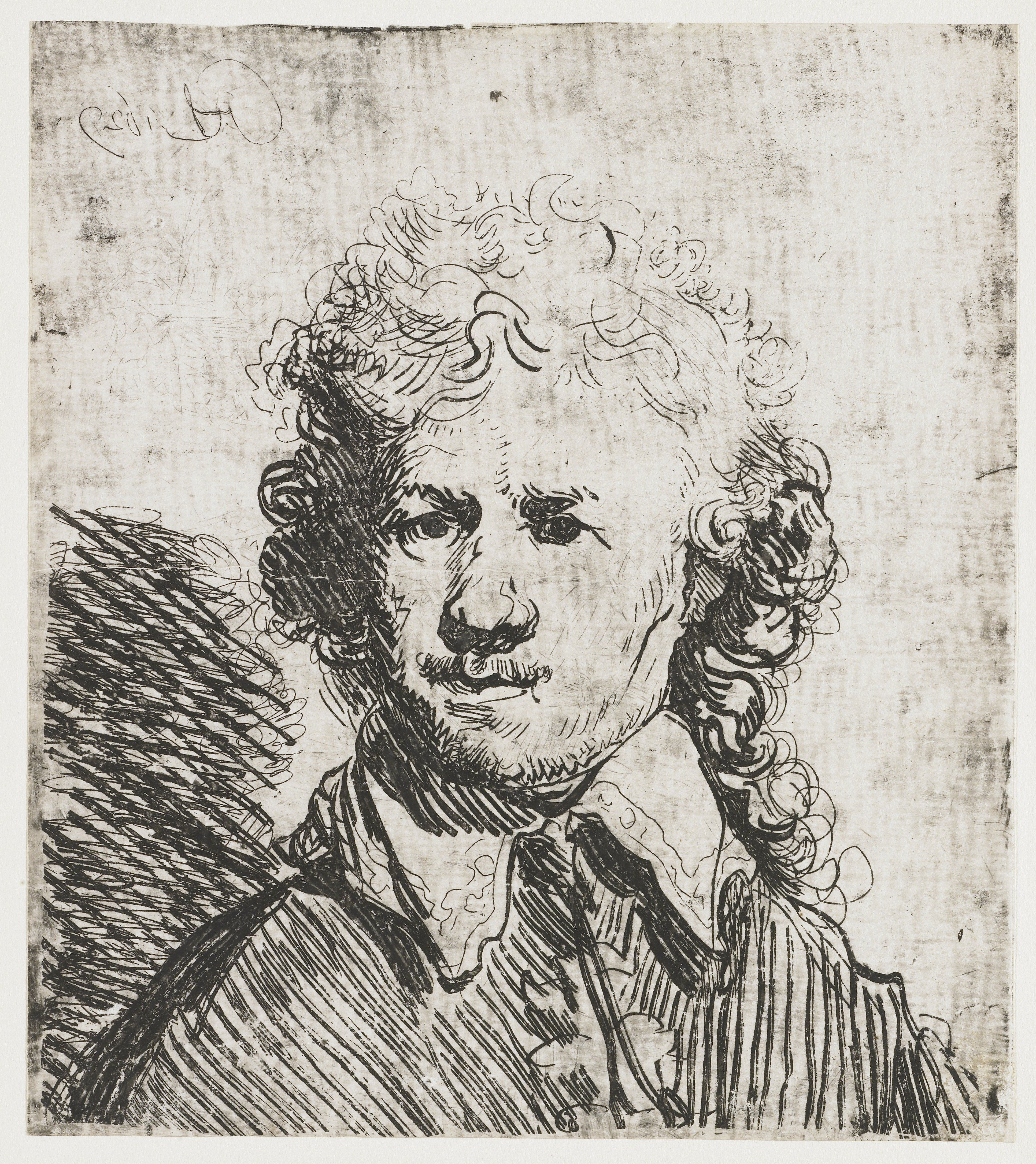 B338 Self-portrait, Bare-headed, Rembrandt van Rijn, 1629, etching, 174 by 154 mm, Rijksprentenkabinet